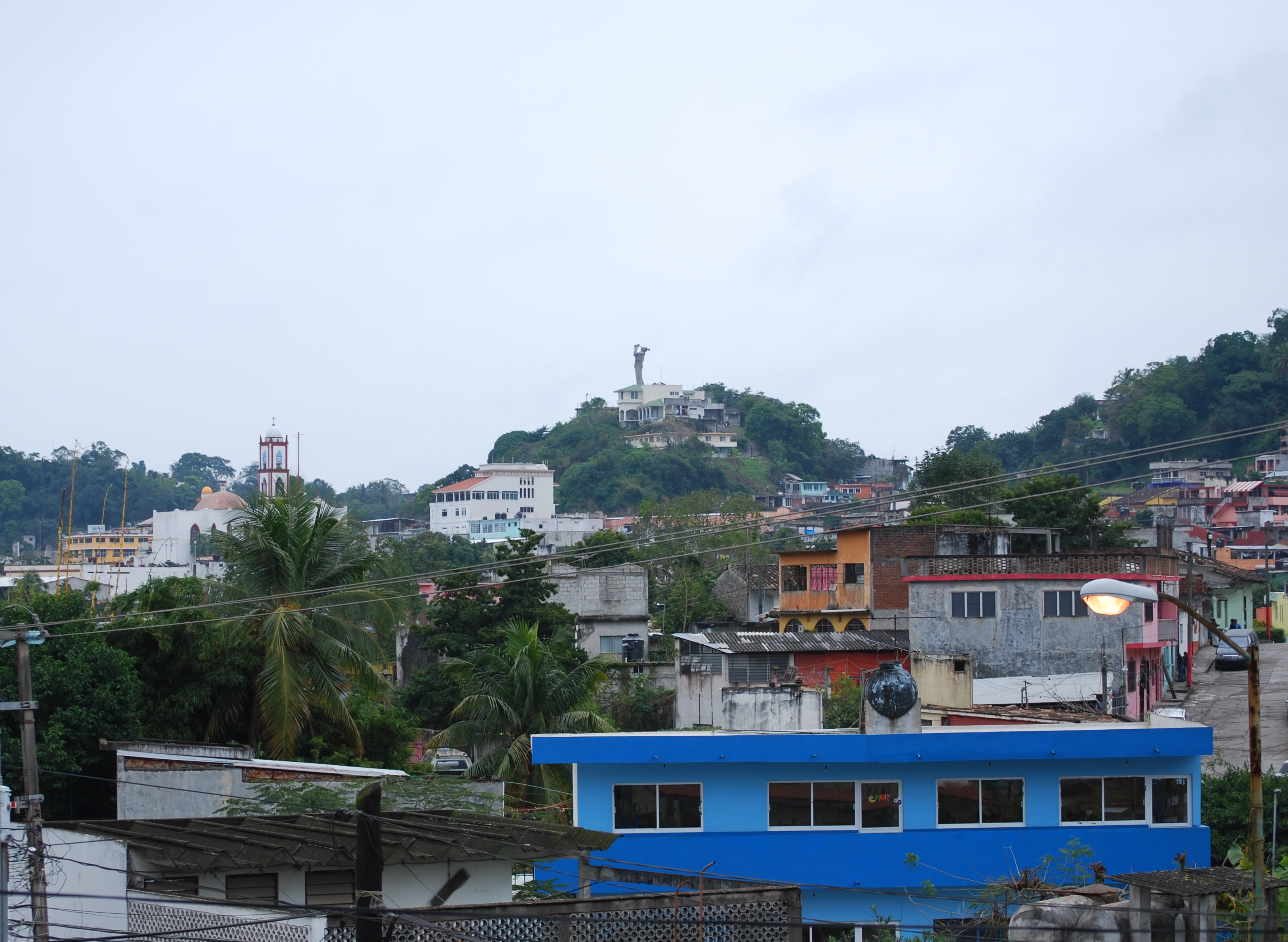 Panoramic of the center of Papantla, Veracruz, Mexico